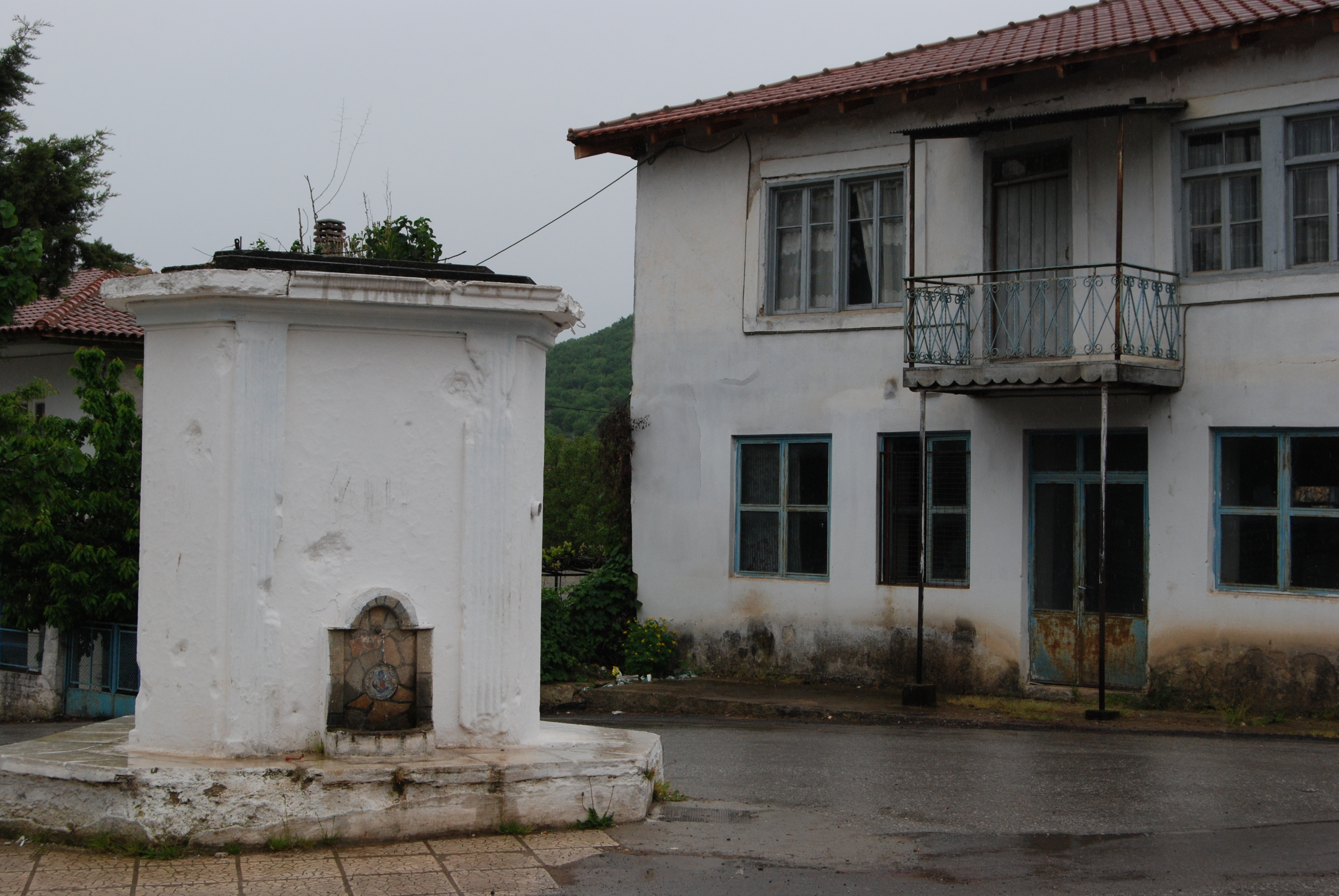 An old fountain in the centre of the village of Vathytopos, district of Drama, Greece